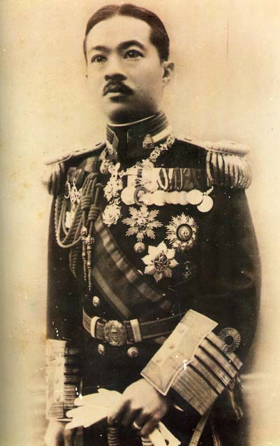 Photograph of Prince Paribatra Sukhumbhand of Siam, Prince of Nakhon Sawan. Heir to the throne and Minister of the Interior